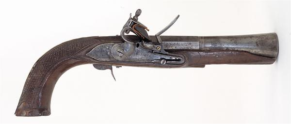 A flintlock blunderbuss pistol (also called a dragon) from the Smithsonian Institution. Likely this picture is in the public domain, but as it was on Flickr, it was licensed with a CC attribution license. Cropped from SI original, which can be found here: SI Neg. 2004-39200.06. Date: na....English flintlock blunderbuss pistol..This gun was found on the battlefield of Cerro Gordo, Mexico...Credit: Jeff Tinsley (Smithsonian Institution)